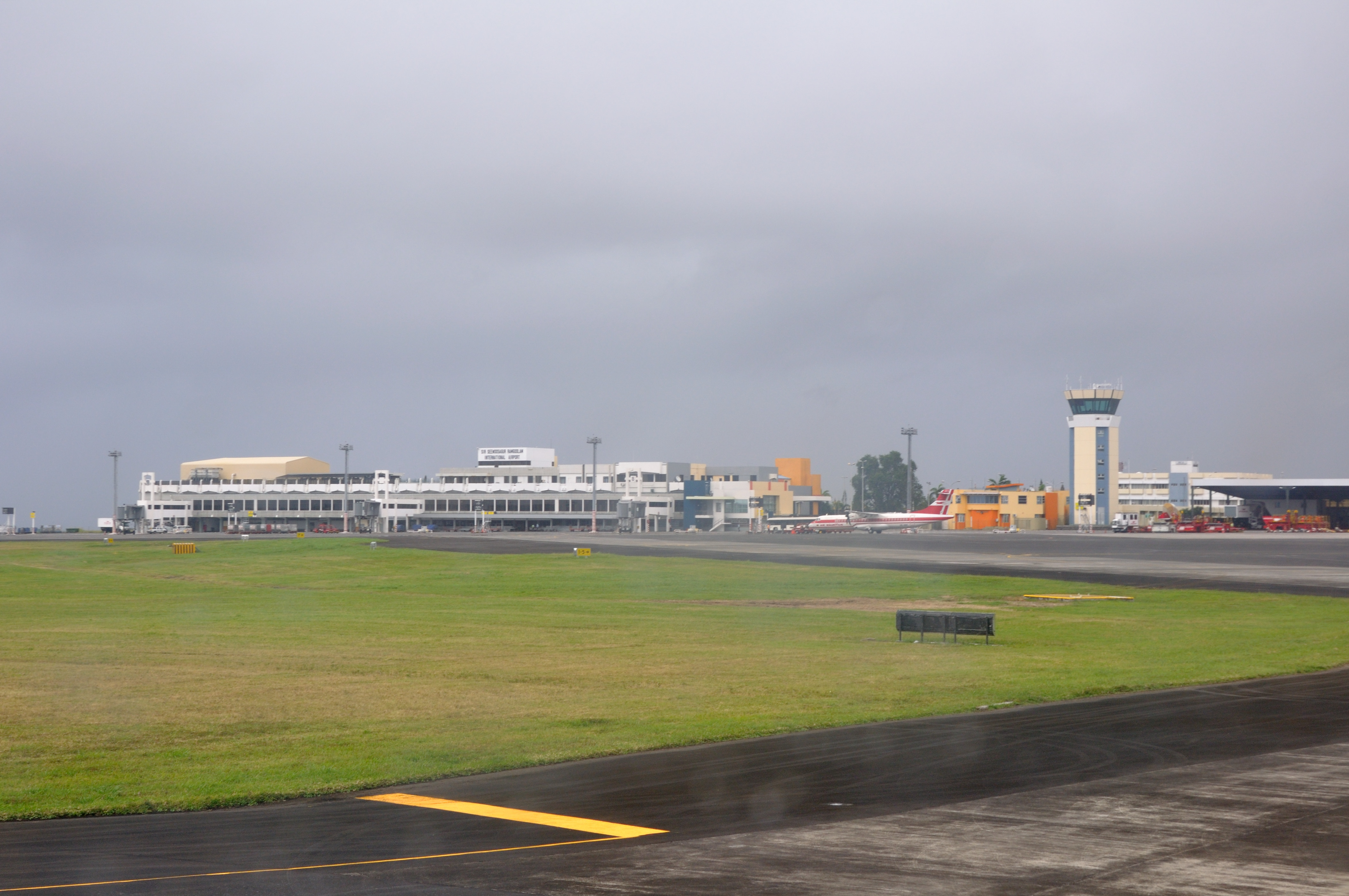 Mauritius, Sir Seewoosagur Ramgoolan International Airport in Mauritius